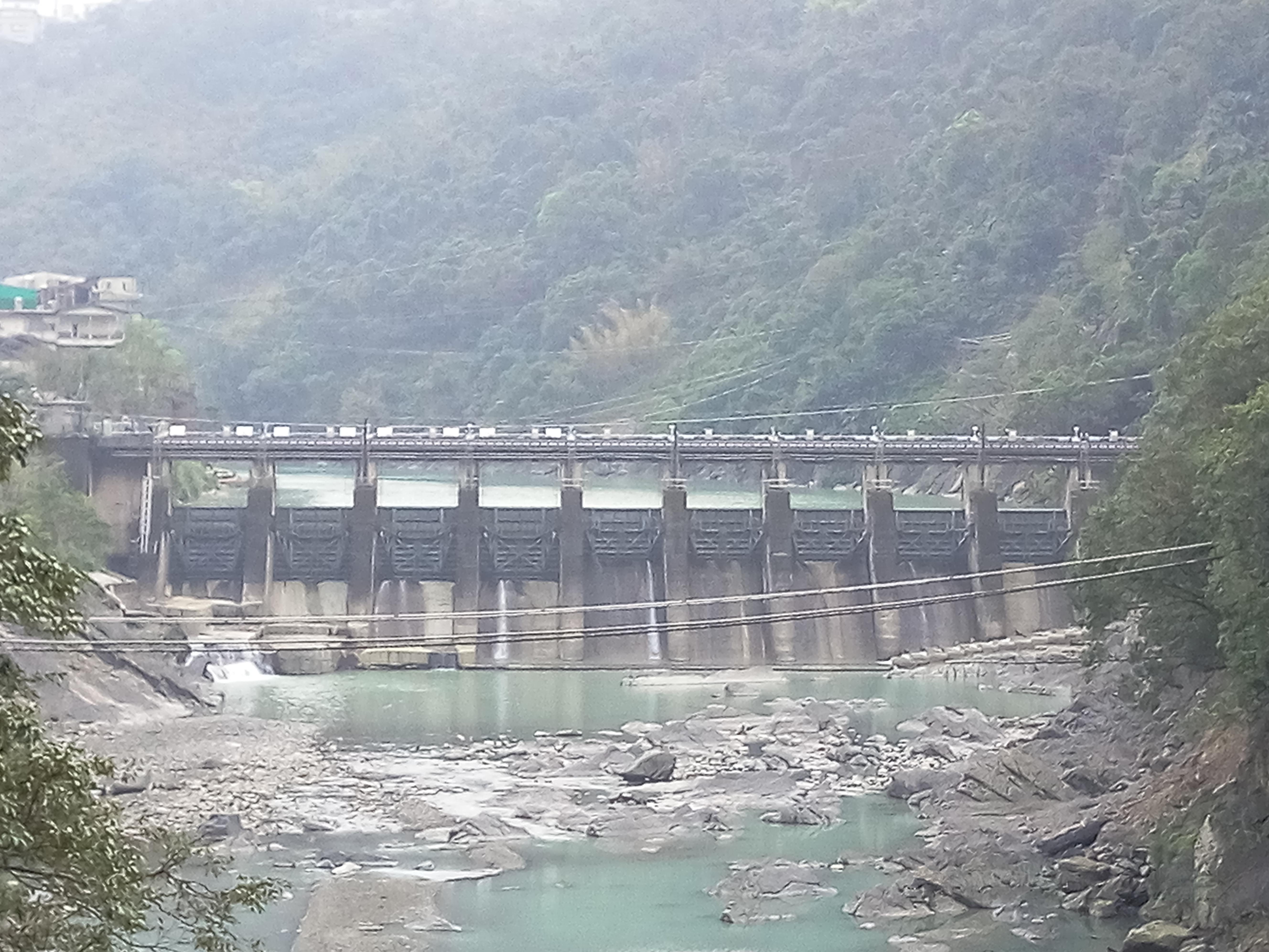 Gueishan Dam